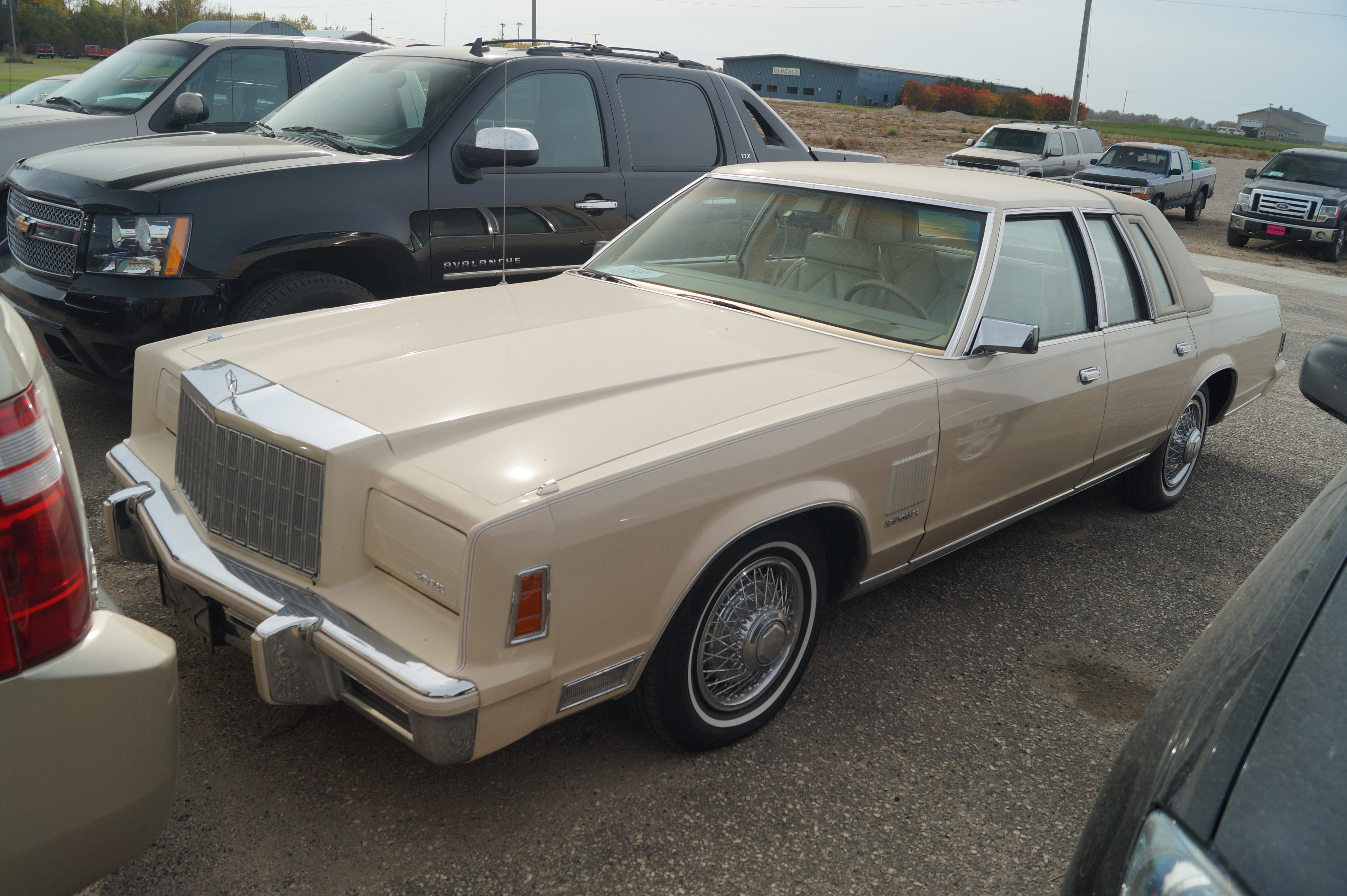 Click here for more car pictures at my Flickr site. Body Style:4 Door Year:1979 Make:Chrysler Model: New Yorker Package: Fifth Avenue Edition Mileage: 39,317 Miles Engine: V8 360 Cu In Fuel: Gas Transmission:Automatic Drive Type: Rear Wheel Exterior Color: Tan/Cream Interior Color